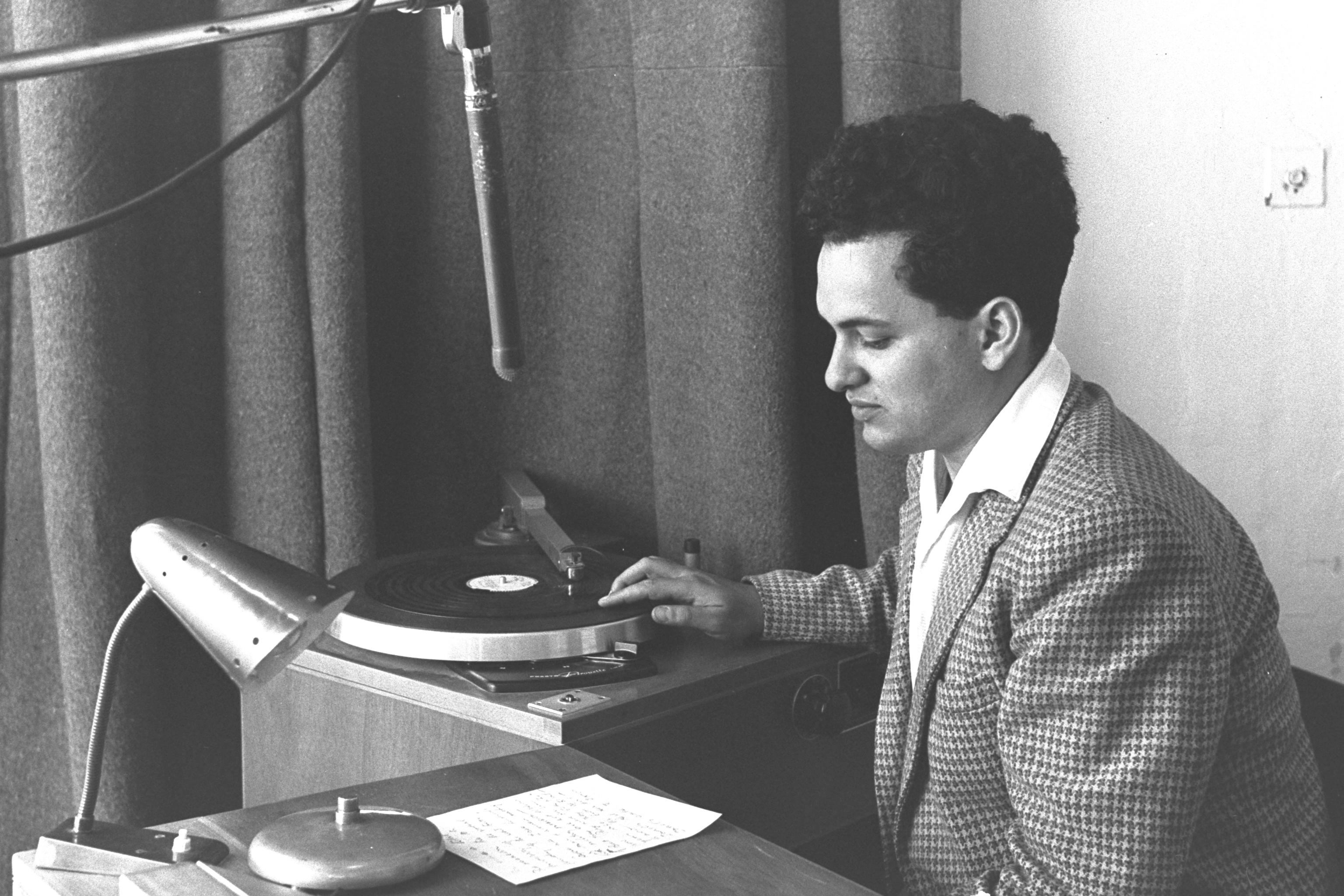 Yoram Ronen, Kol Israel News Editor. June 1959